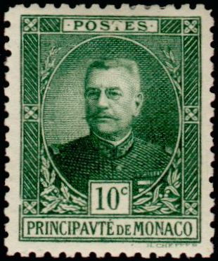 Stamp of Louis II of Monaco